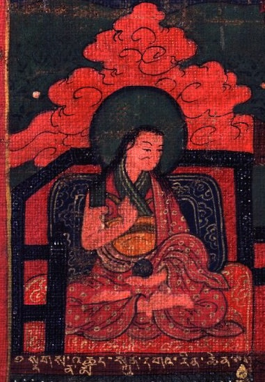 Ngakchang Ngawang Kunga Rinchen, b.1517 - d.1584, The Twenty-Third Sakya Tridzin